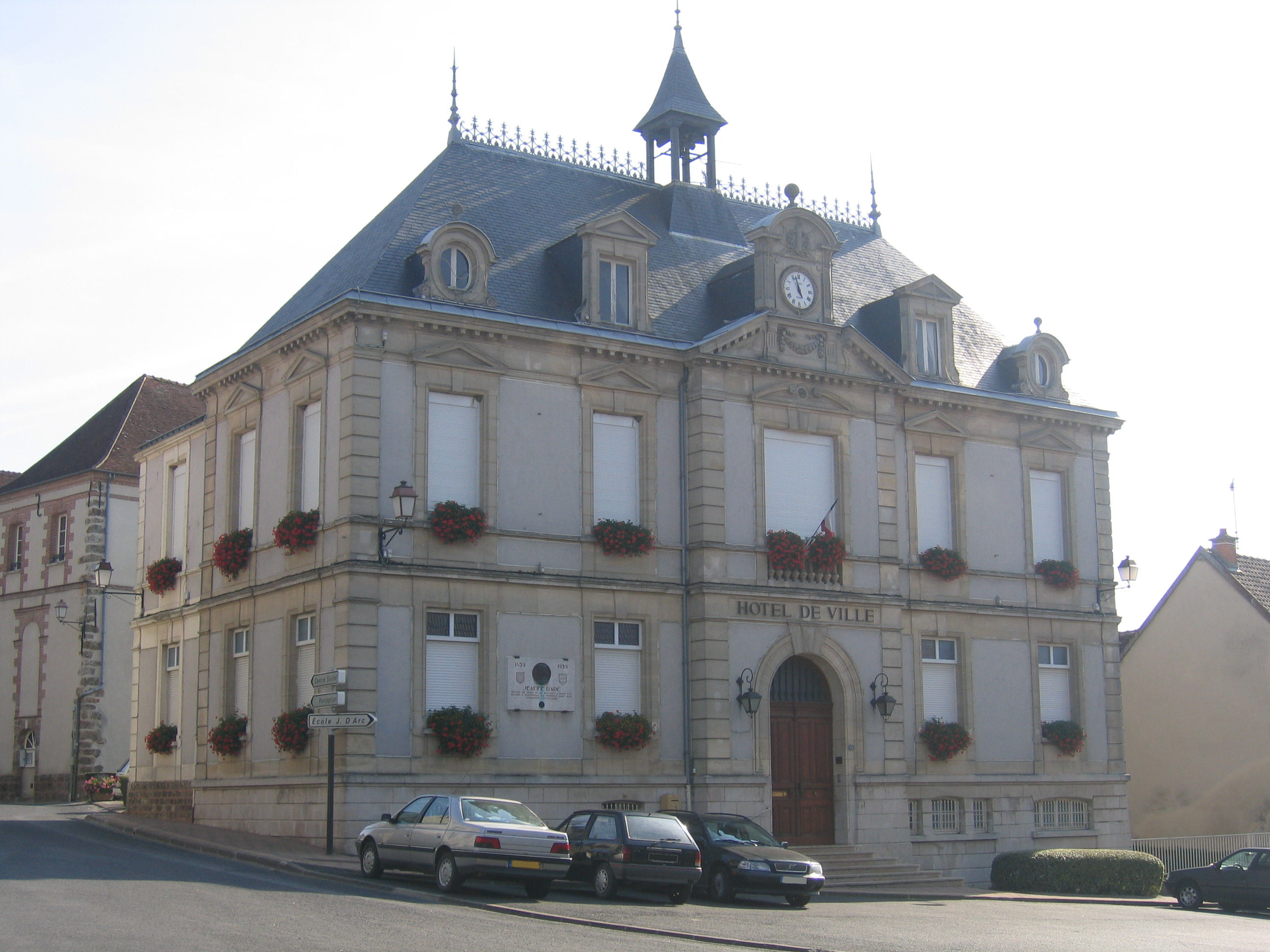 Front of the city hall of Montmirail in France.